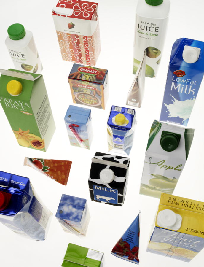 Tetra Pak packaging portfolio medium size